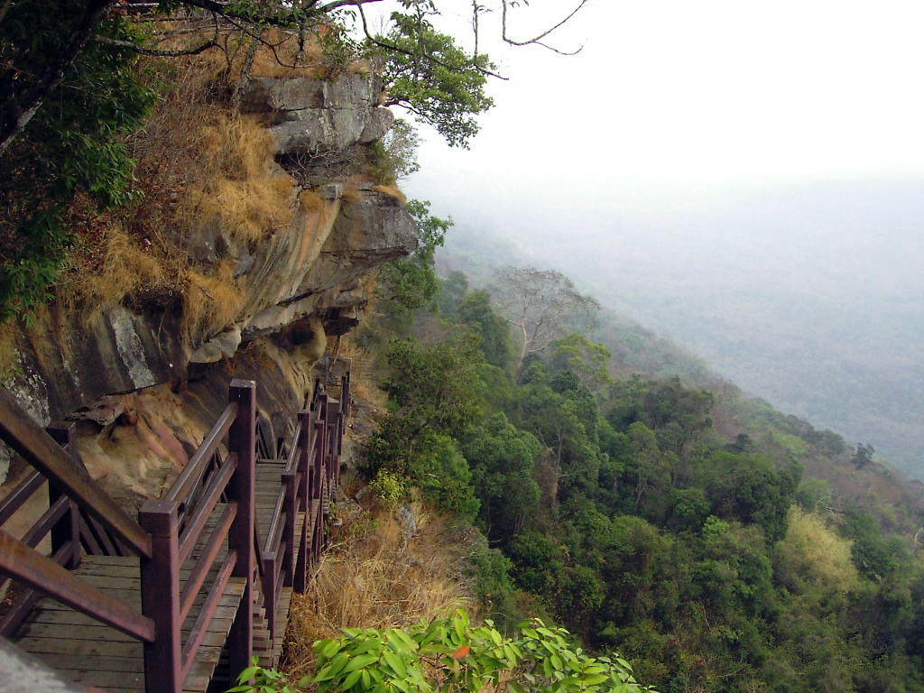 View down the stairway leading to Pha Mo I Daeng bas relief sculpture, with "mo" view of Cambodia